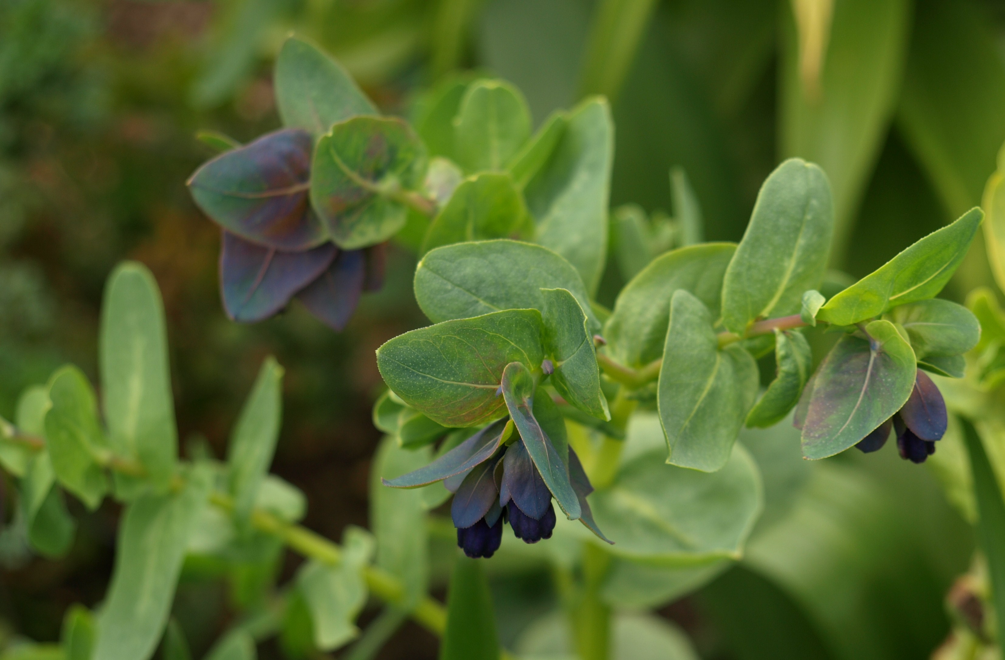 Cerinthe major is not a showy plant but I thought it was pretty. I have always loved flowers and gardens and visit all the plant nurseries and garden centres I can find but have never spotted this little blue one before.